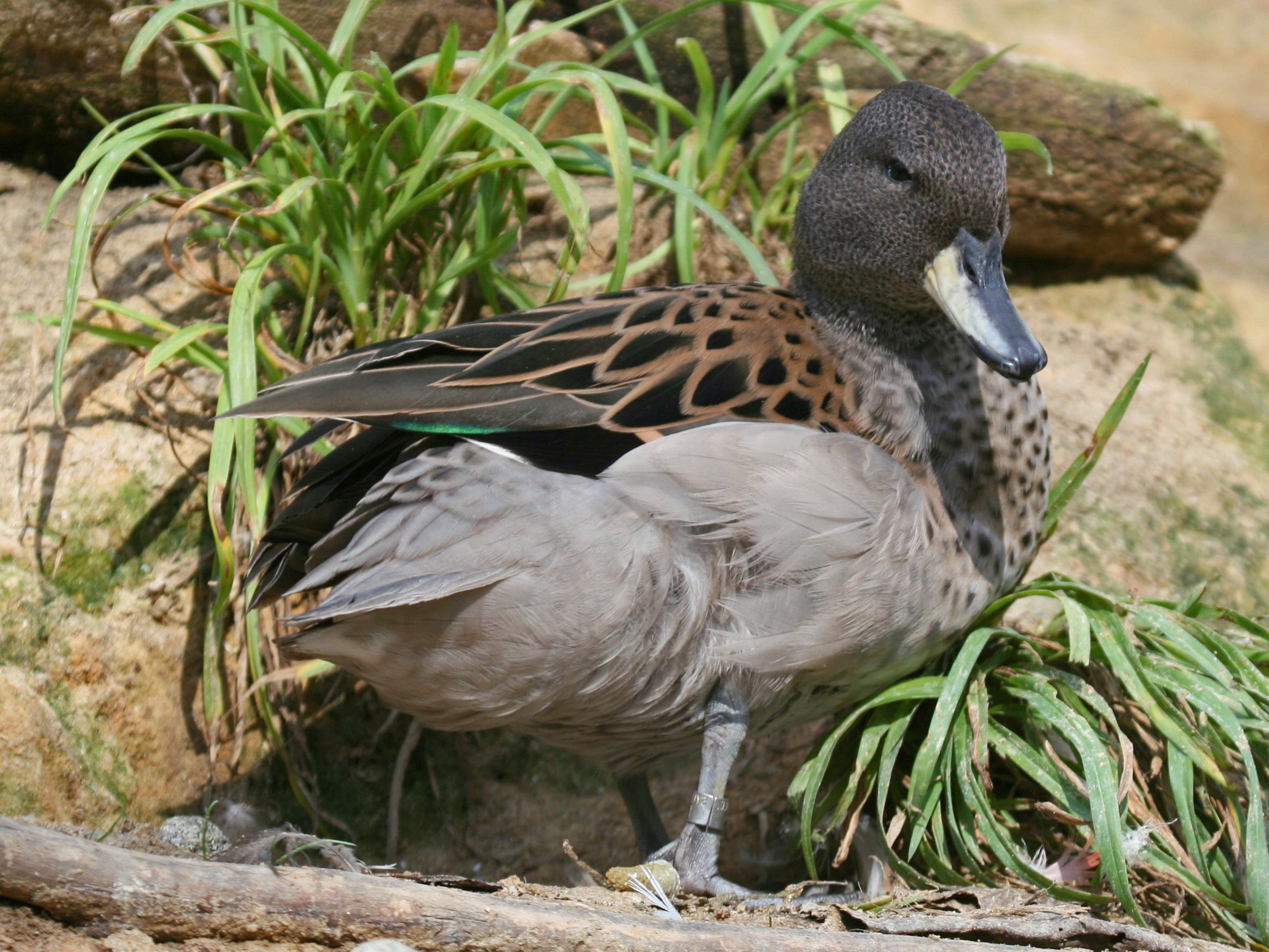 Yellow-billed Teal Anas flavirostris at Sylvan Heights Waterfowl Park in Scotland Neck, North Carolina. This photo is of subspecies Sharp-winged Teal Anas flavirostris oxyptera. Previously, the Yellow-billed Teal and the Andean Teal formed the superspecies Speckled Teal, but increasingly taxonomists consider the two species distinct.